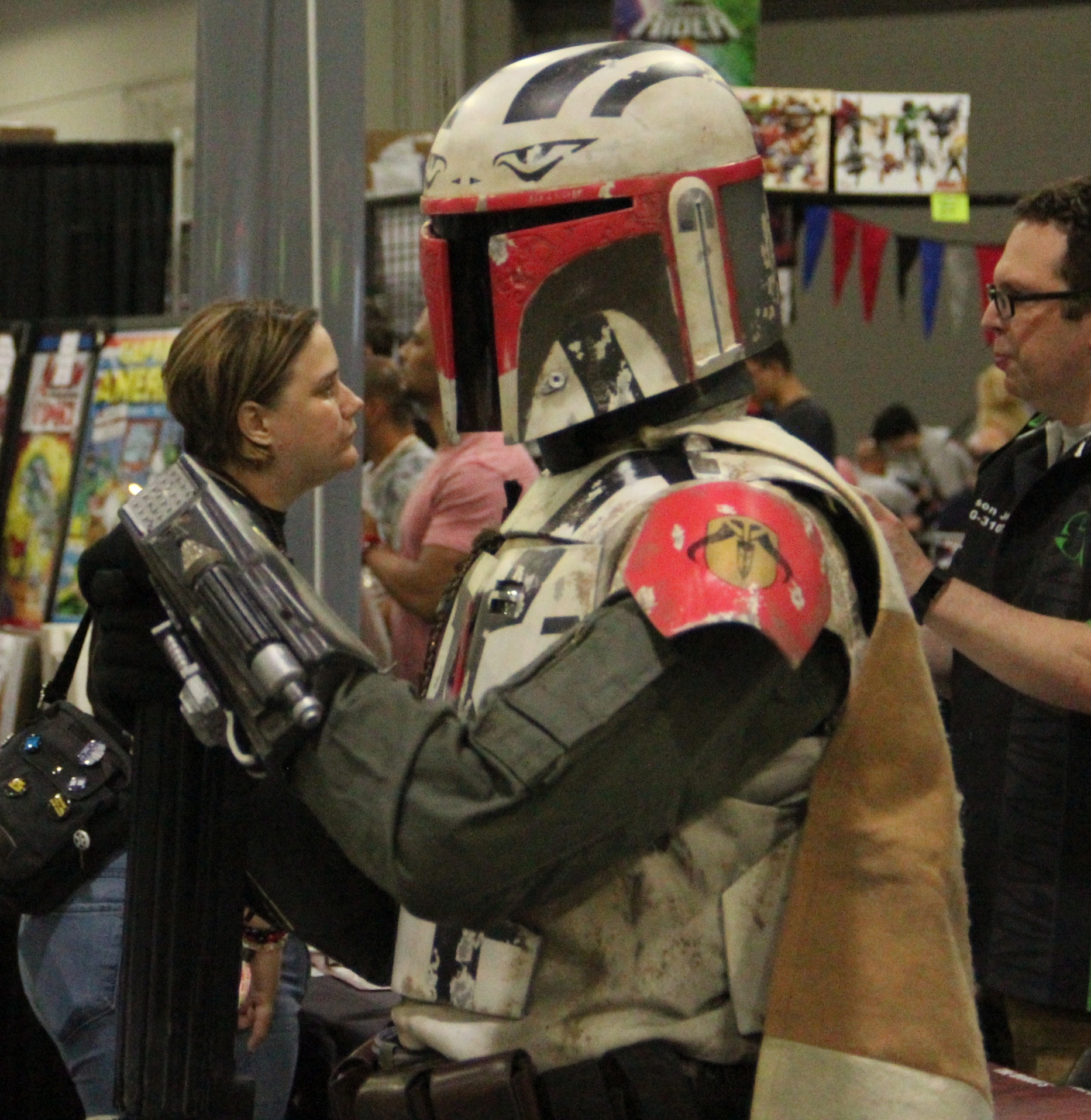 Mandalorian cosplay - 2018 Atlanta Comic Con